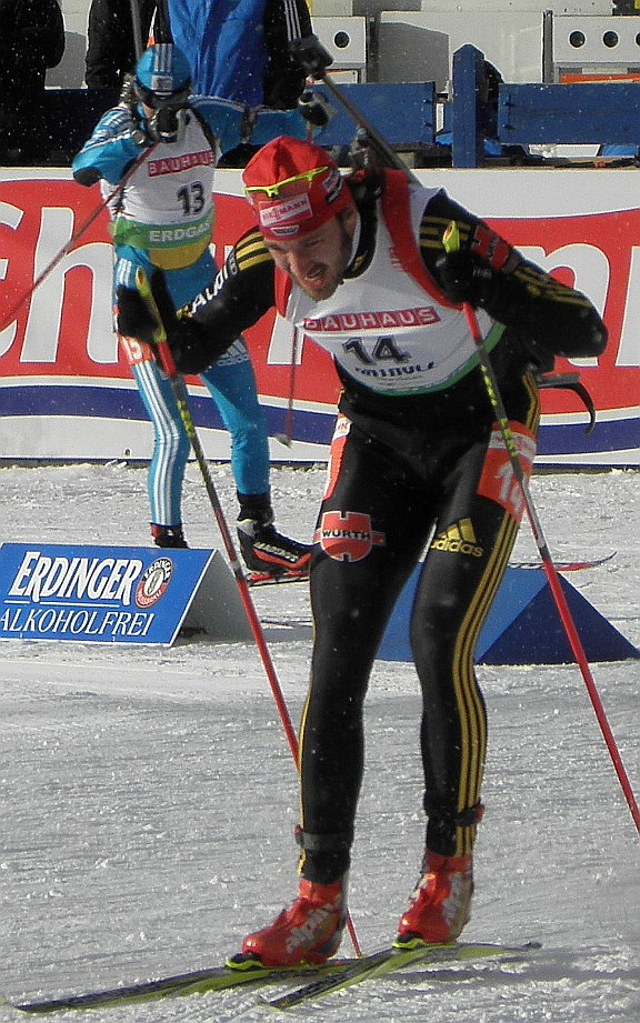 Alexander Wolf in Antholz, 21-01-2010